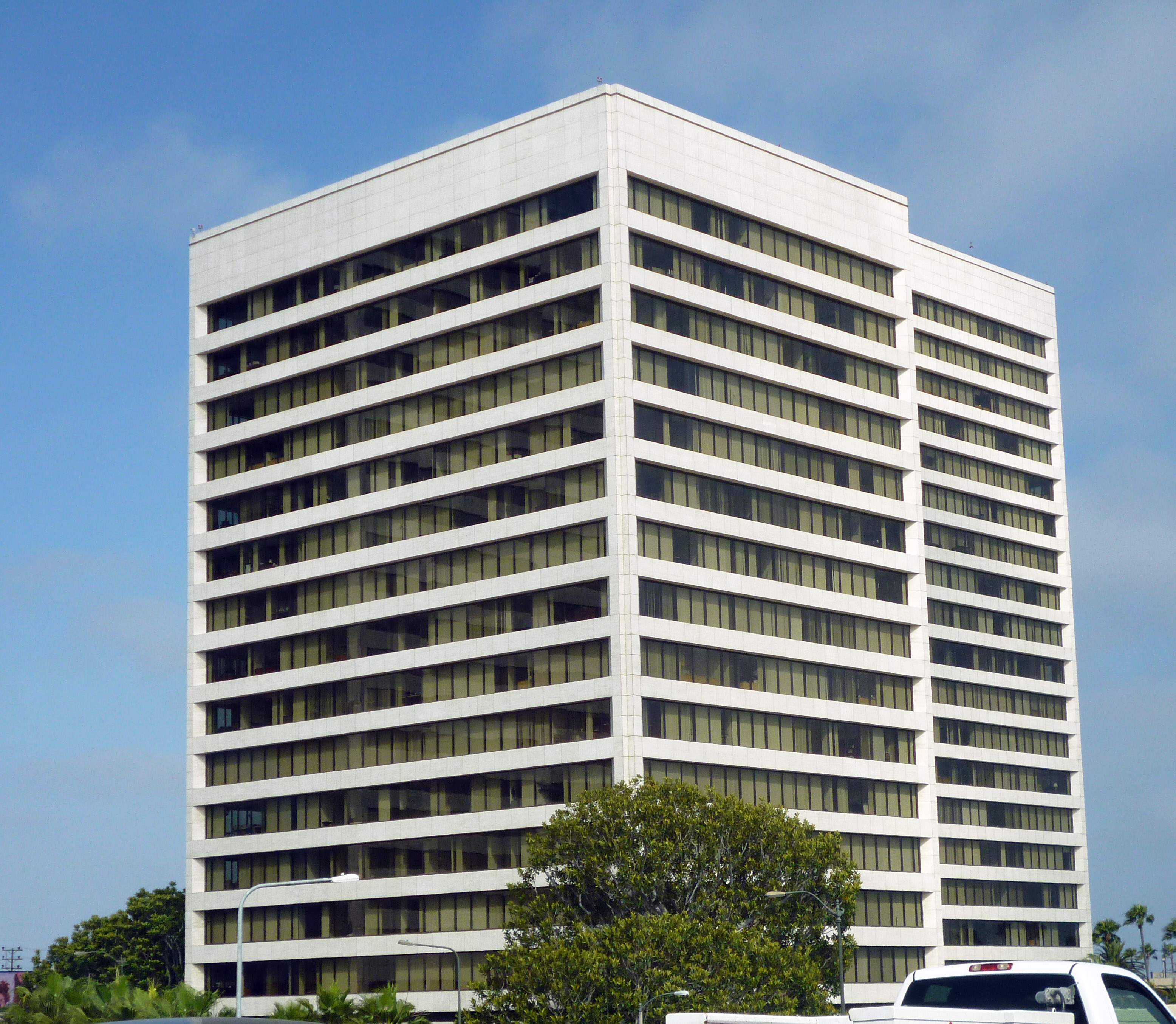 The current headquarters of CB Richard Ellis at the Westwood Gateway office complex in Los Angeles.